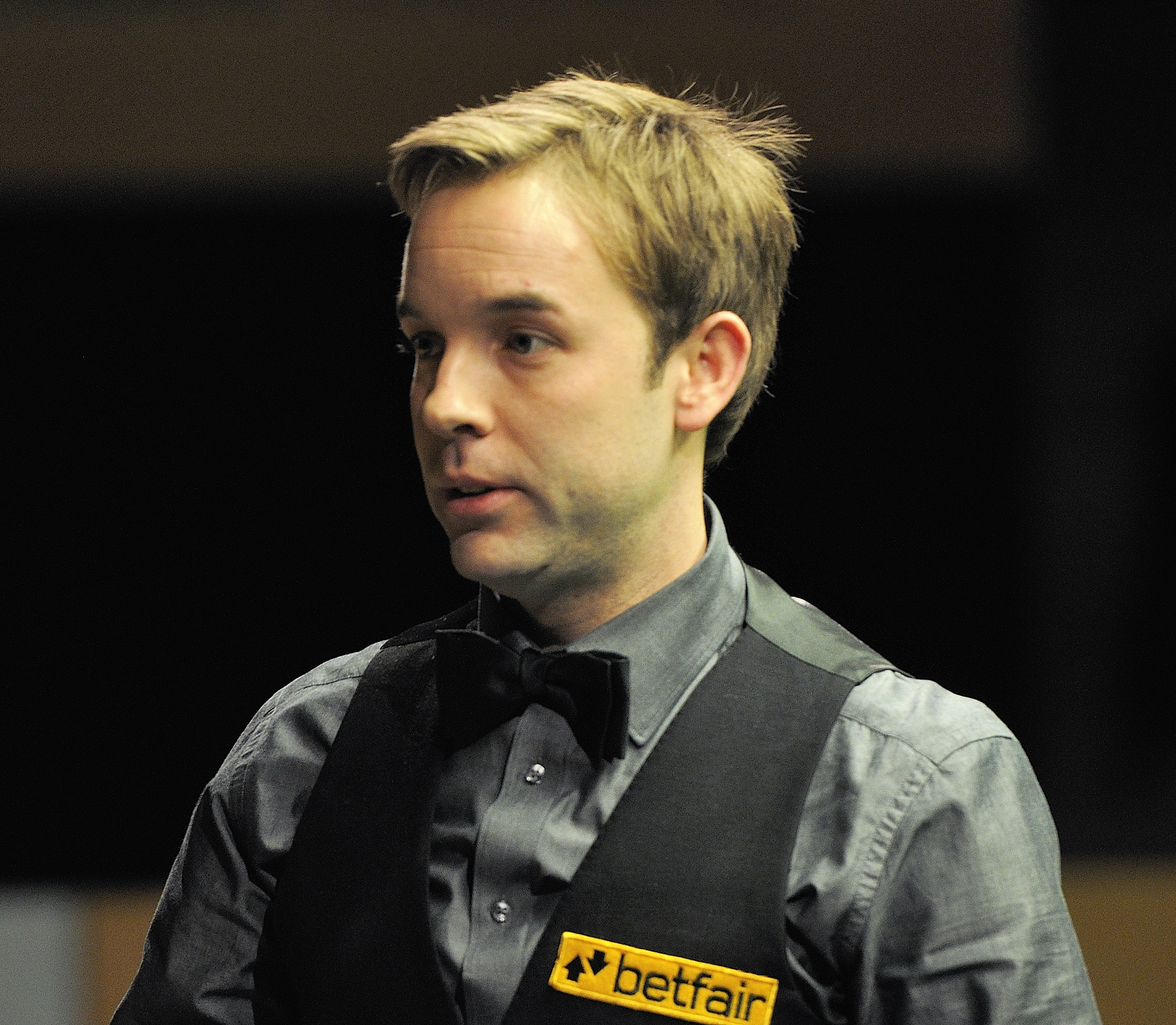 Picture taken in Berlin during the Snooker German Masters in 2013. Ali Carter.